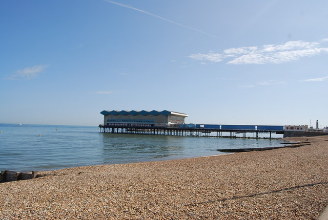 Herne Bay Pier